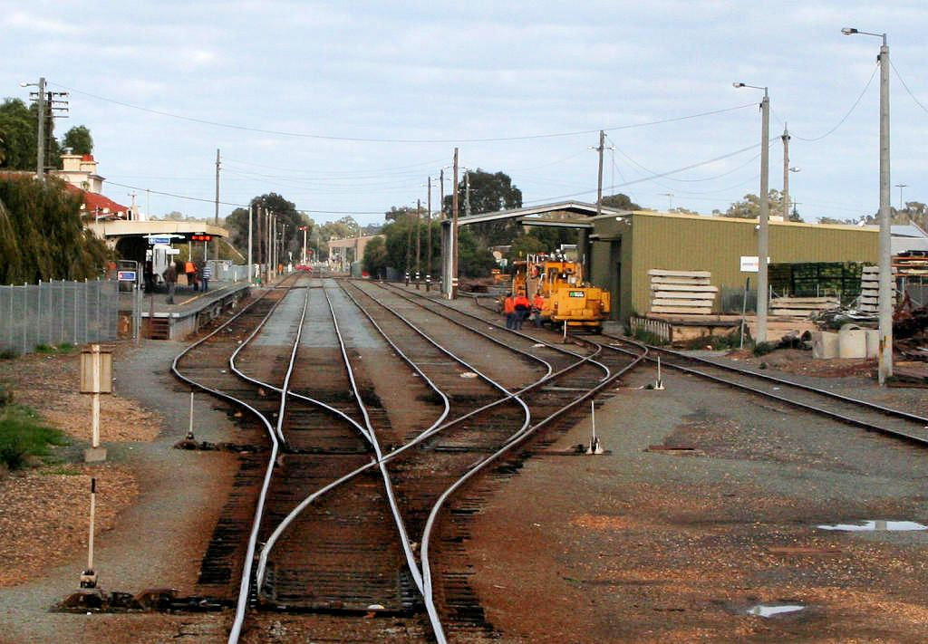 Shepparton railway station, Victoria overview from the north